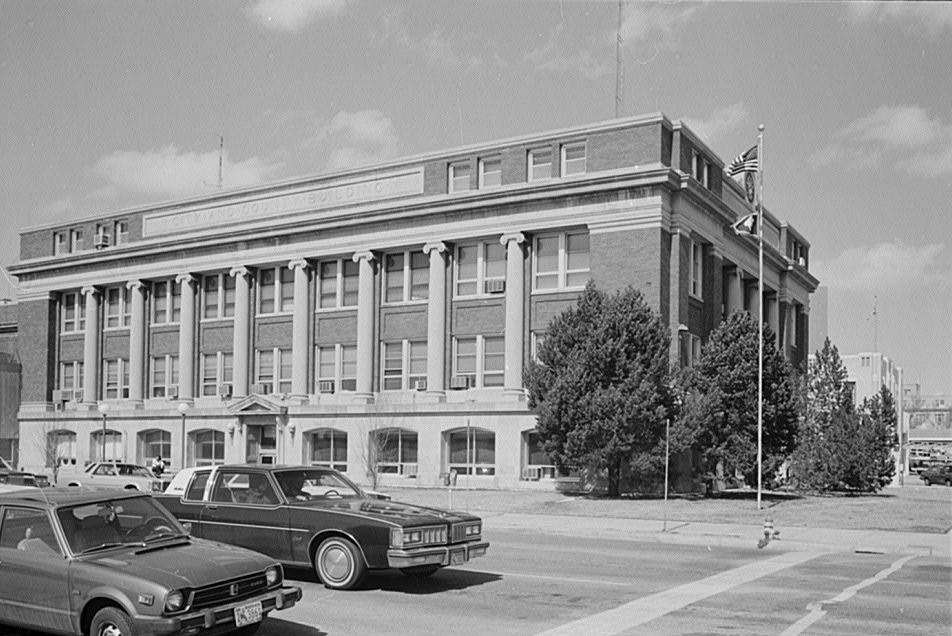 Exterior of the City and County Building, located at the intersection of 19th Street and Carey Avenue in Cheyenne, Wyoming, United States. Built in 1917, this neoclassical building is listed on the National Register of Historic Places.